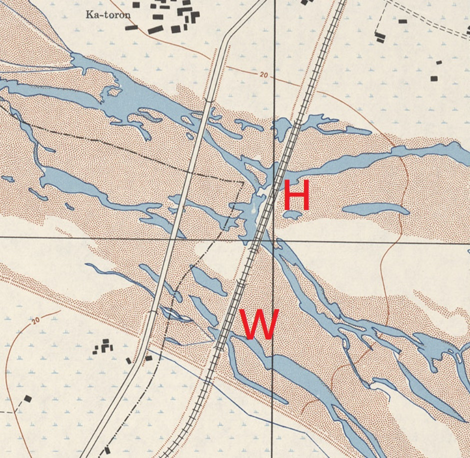 The Taiwan Railway Bridge near by Hsinchu(Shinchiku). A part of Map of Shinchiku(1945) [1]